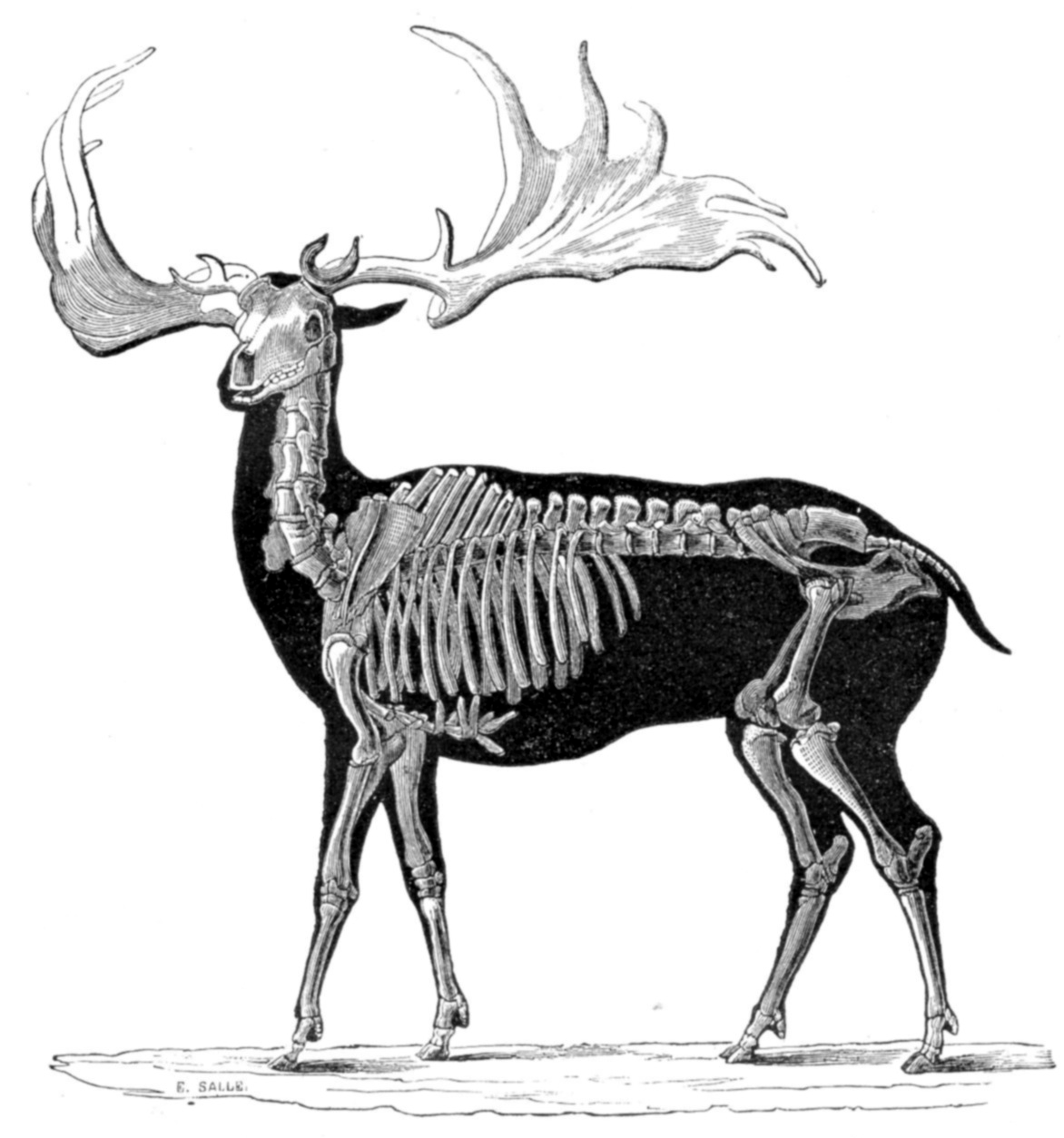 Skeletal reconstruction of Megaloceros (Irish Deer). Original caption was: "Fig. 179.-Cervus Megaceros Cuvieri."